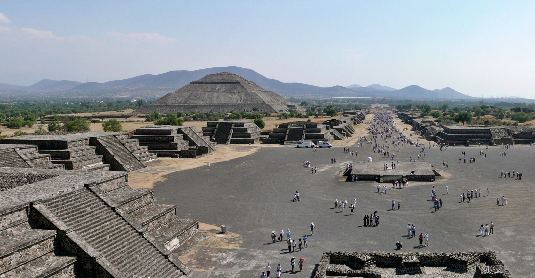 Teotihuacan, Mexico